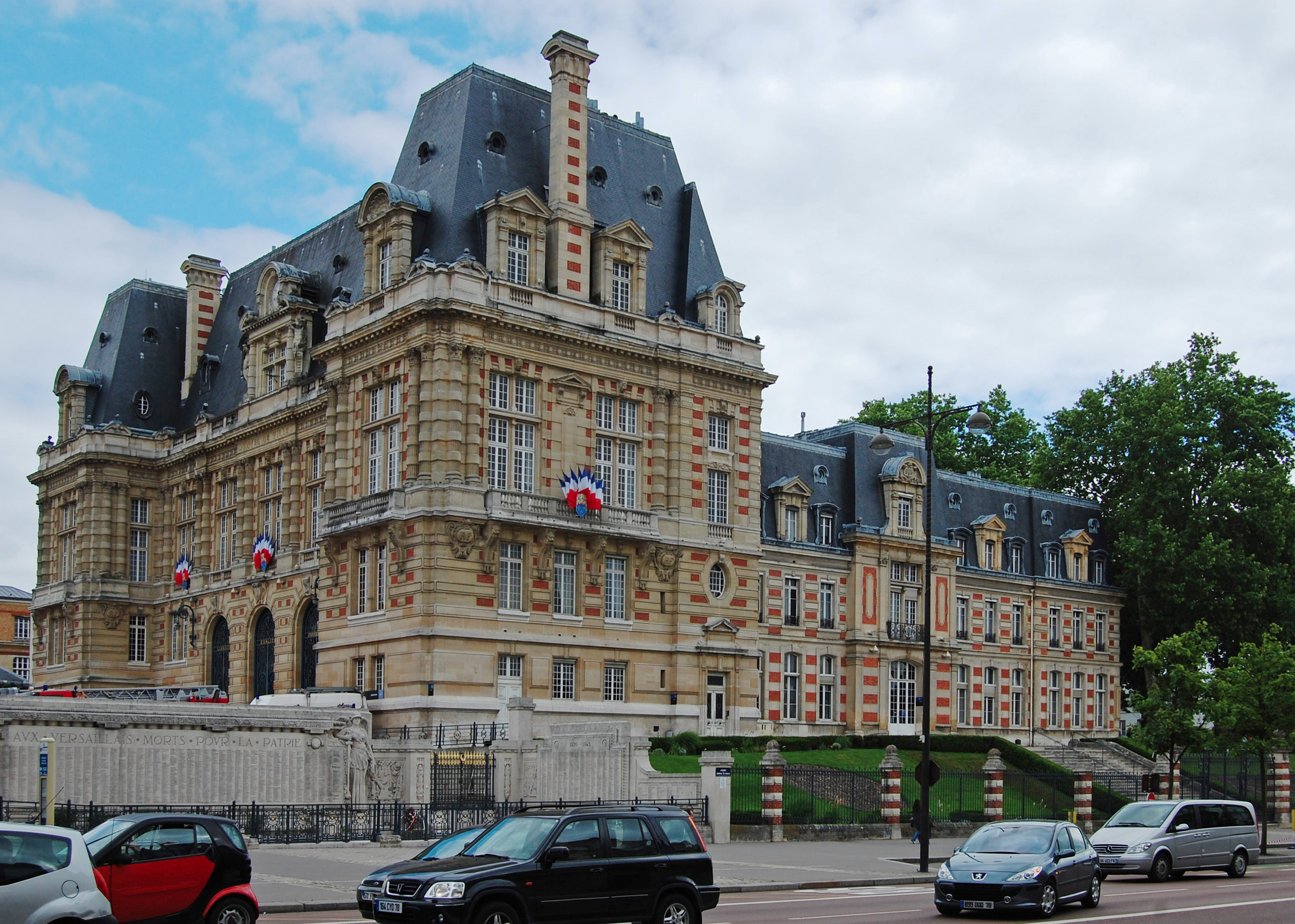 The city hall (known as a hôtel de ville or mairie in French) of the town of Versailles (Yvelines, France).